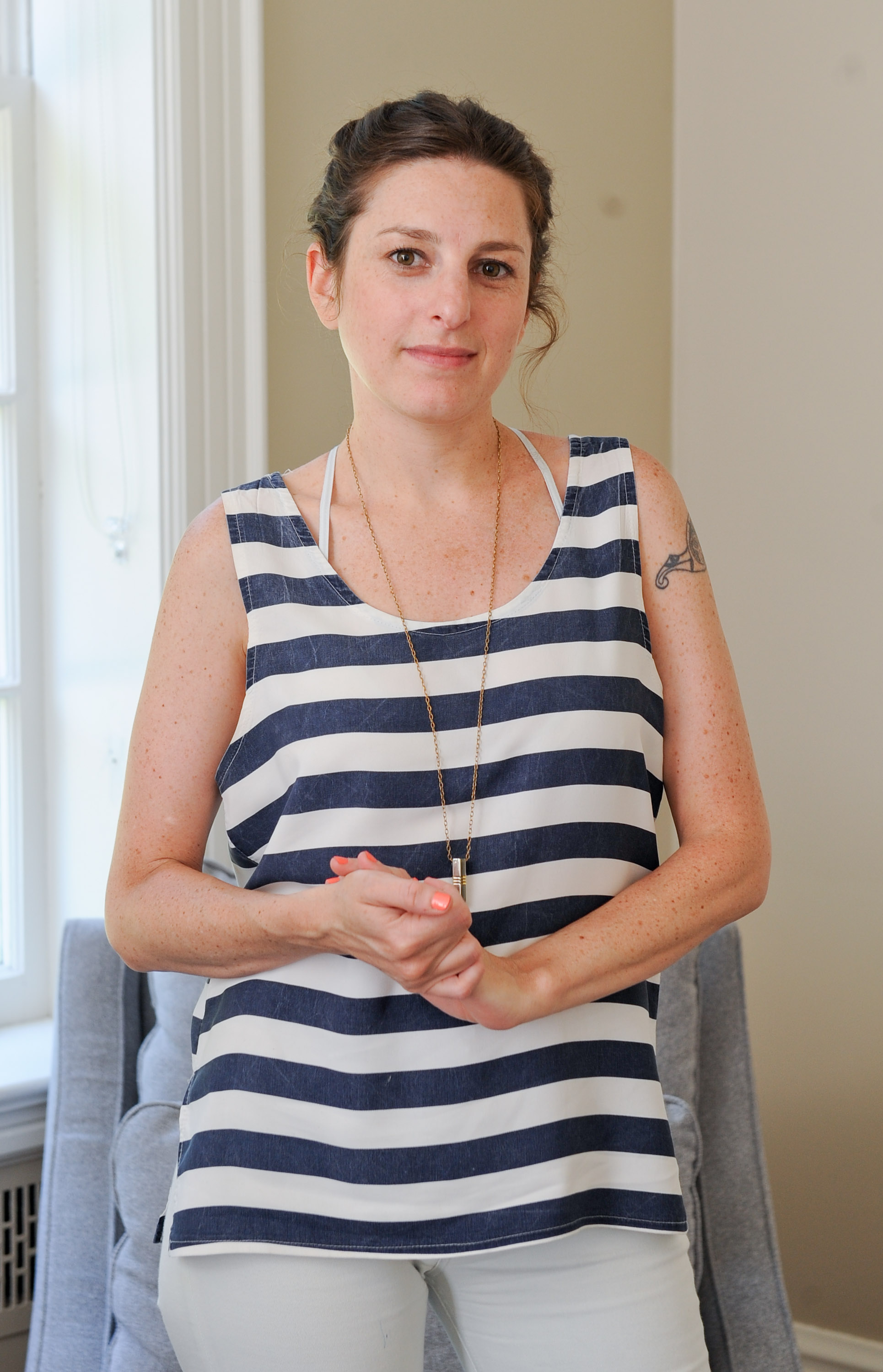 Gillian Robespierre, writer/director of Obvious Child, visits CFC for Master Class with residents of the 2014 Cineplex Entertainment Film Program. Photos by: Ernesto Di Stefano